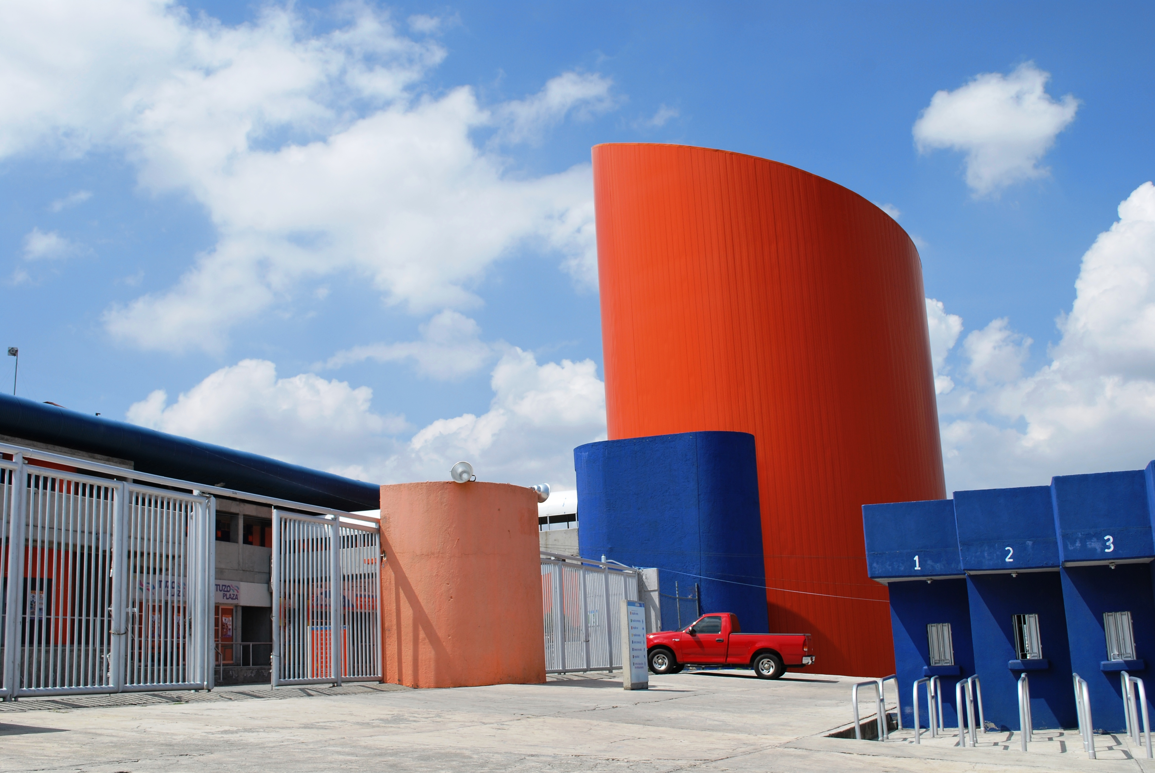 One of the Entrances to the Tuzos Staduim in Pachuca, Hidalgo, Mexico. The orange thing is an uncompleted museum.